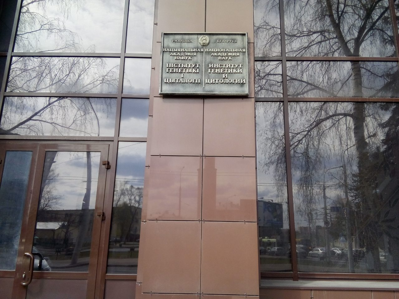 Plaque on the the Institute of Genetics and Cytology of the National Academy of Sciences of Belarus (27 Akademičnaja Street, Minsk; 20th of April, 2019)